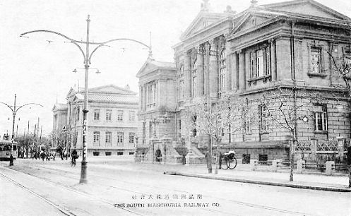 Headquarters of South Manchurian Railway Co.